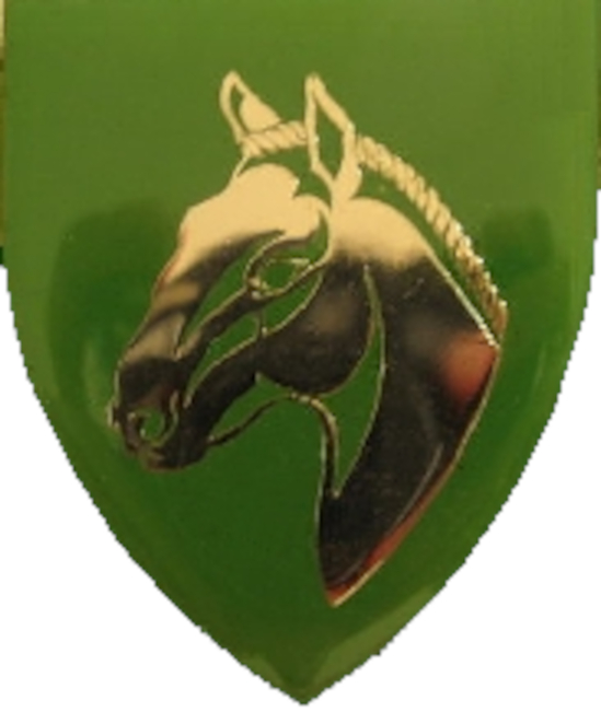 SADF era Standerton Commando emblem